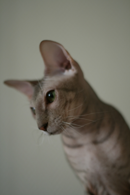 Peterbald cat